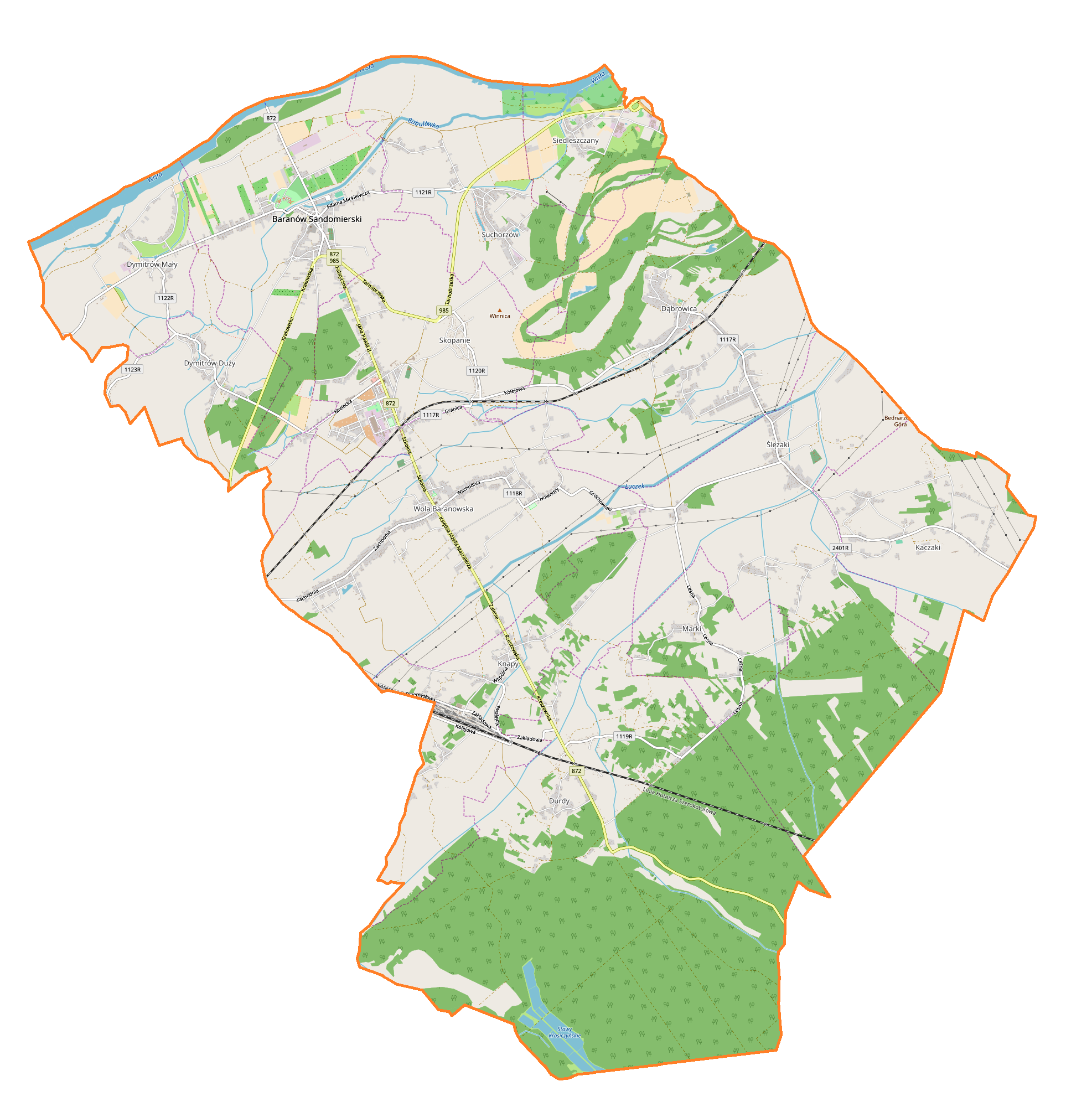 Location map